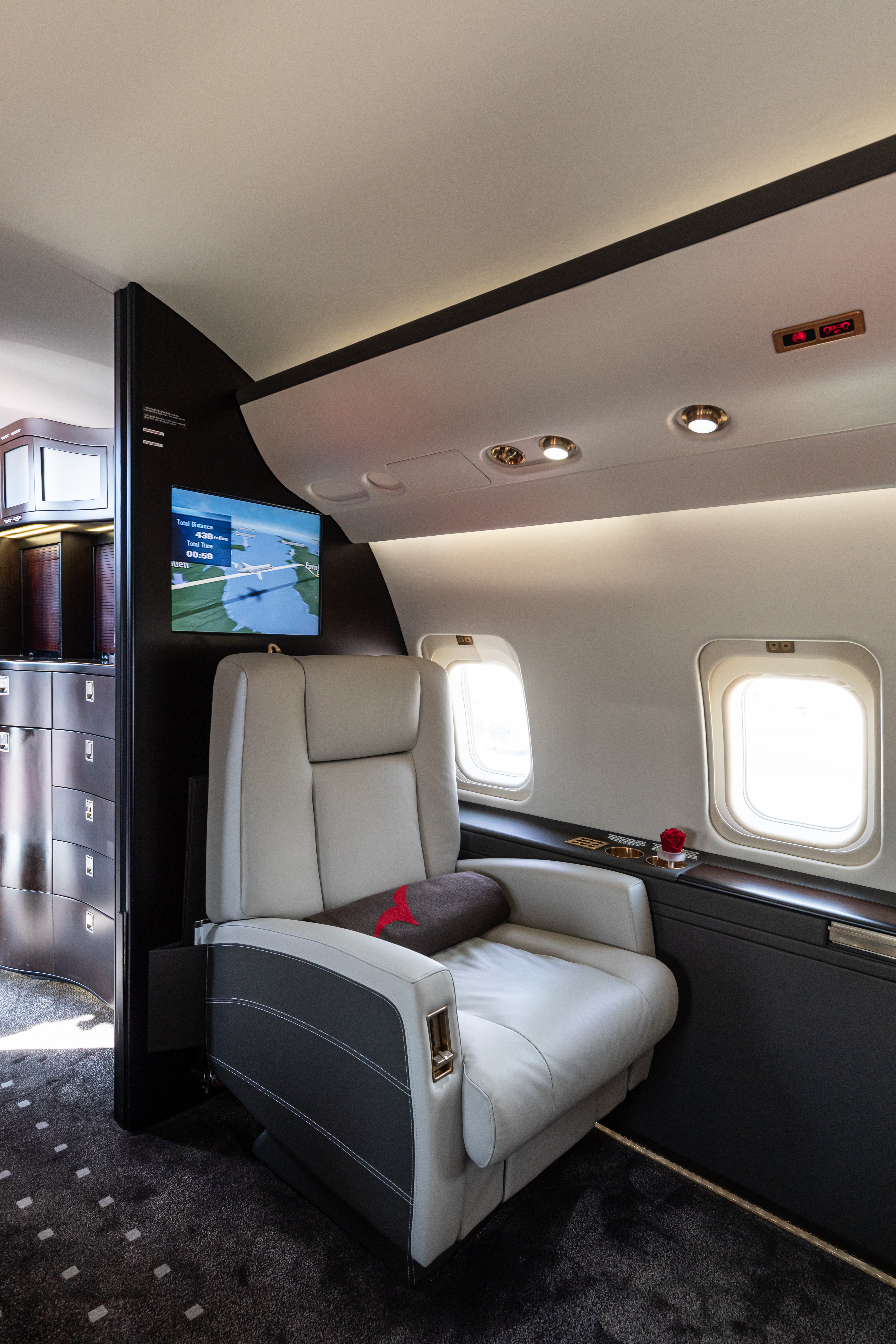 Interior of a Vistajet-operated Bombardier Challenger 850 at EBACE 2019, Palexpo, Switzerland